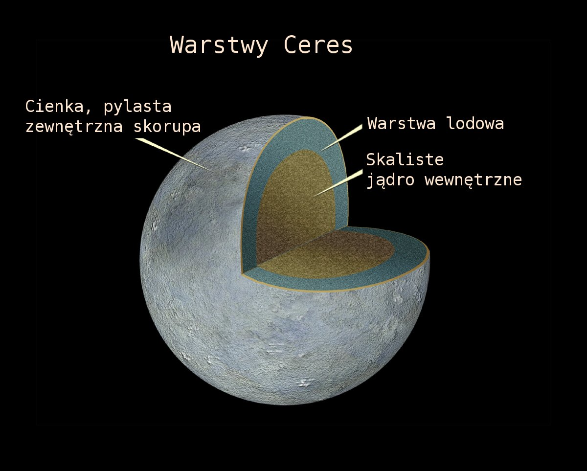 Cutaway view of asteroid 1 Ceres. Observations of 1 Ceres, the largest known asteroid, have revealed that the object may be a "mini planet," and may contain large amounts of pure water ice beneath its surface. The observations by NASA's Hubble Space Telescope also show that Ceres shares characteristics of the rocky, terrestrial planets like Earth. Ceres' shape is almost round like Earth's, suggesting that the asteroid may have a "differentiated interior," with a rocky inner core and a thin, dusty outer crust.